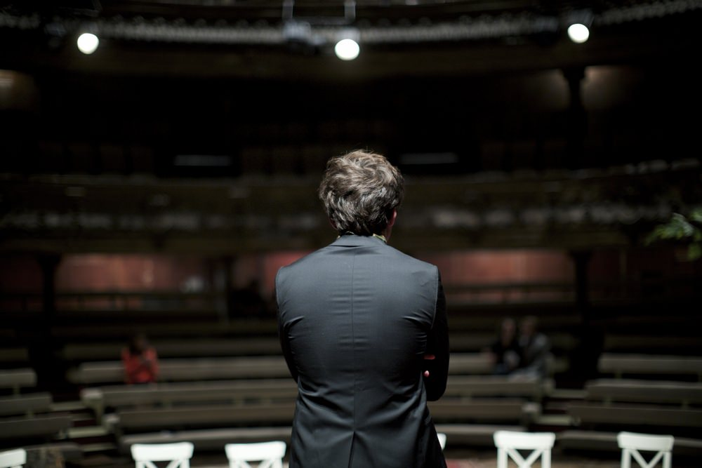 Cours Florent